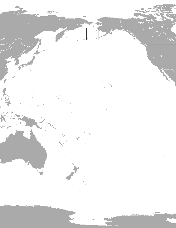 Pribilof Island Shrew (Sorex pribilofensis) range